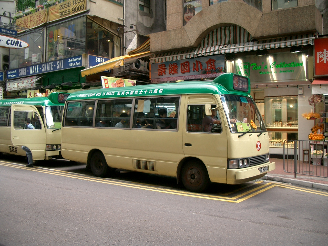 2nd Gerneration of Toyota coaster service in Hong Kong as public light bus